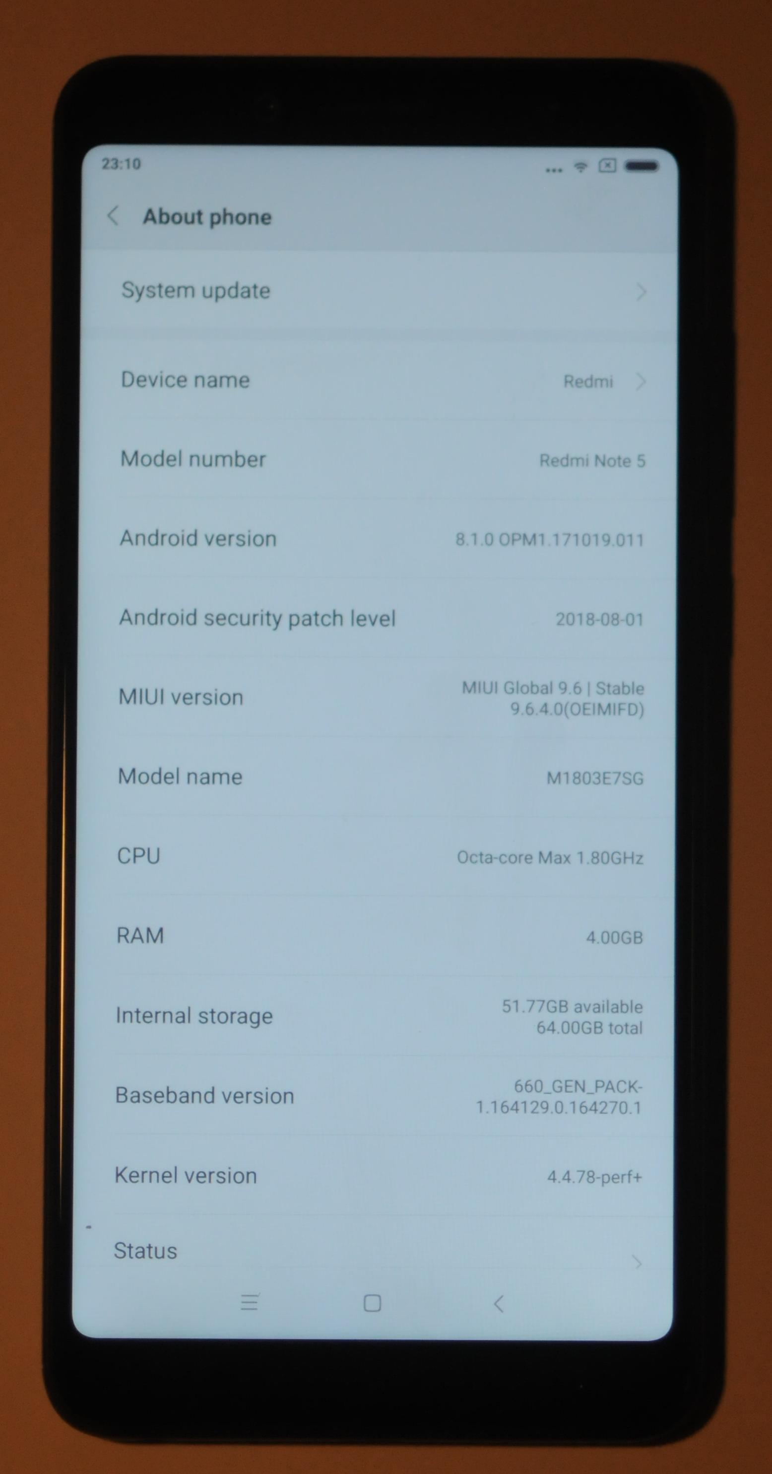 Xiaomi Redmi Note 5 System Info